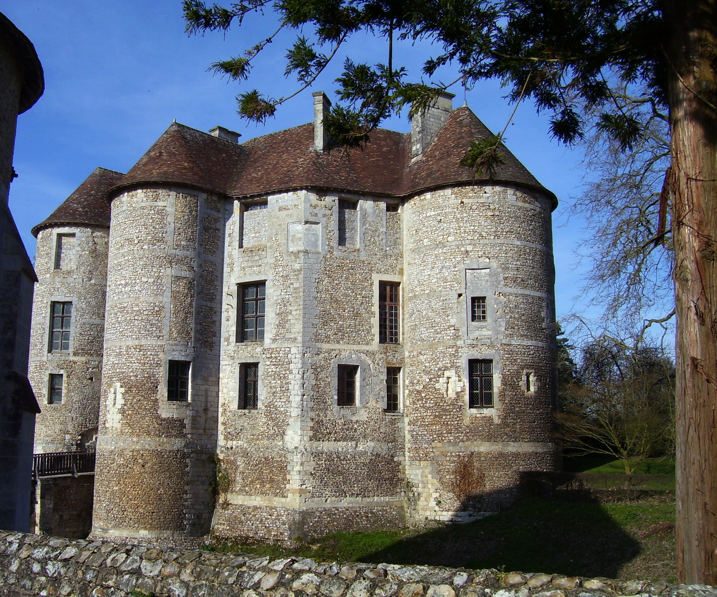 Castle of Harcourt, in the french departement Eure, Haute-Normandie.